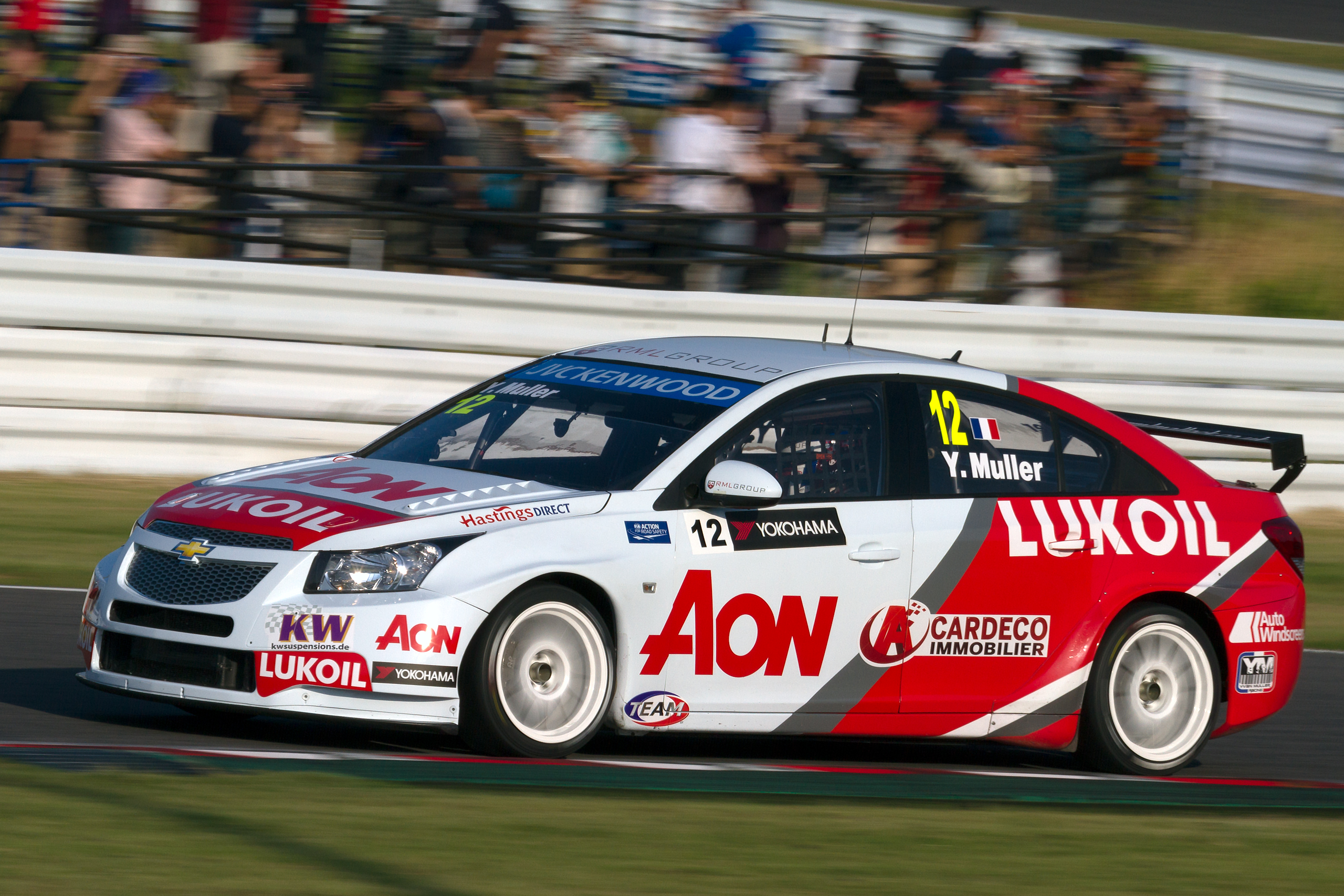 World Touring Car Championship 2013 Race of Japan: Yvan Muller (RML)